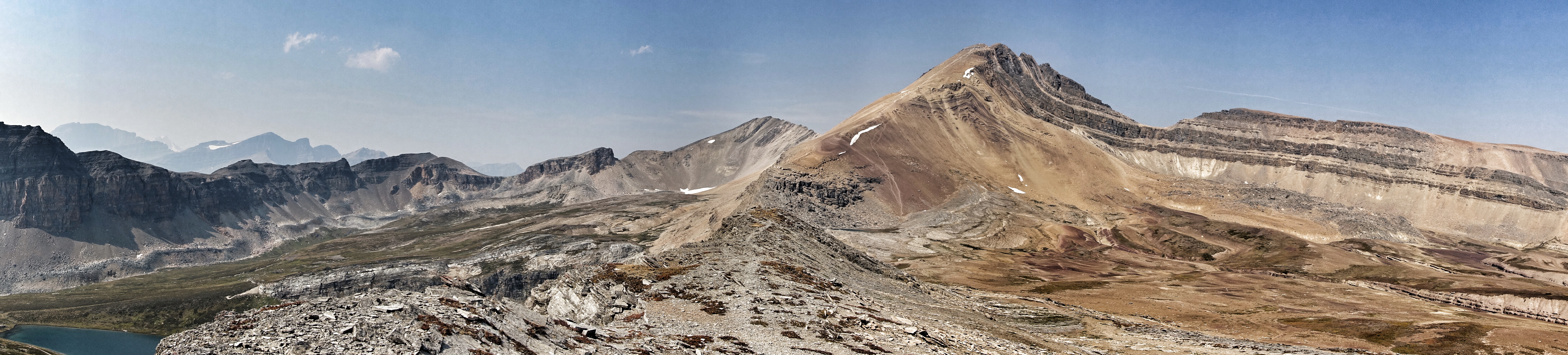 Cirque Peak and Helen Lake (lower left) in Banff National Park, Canada.